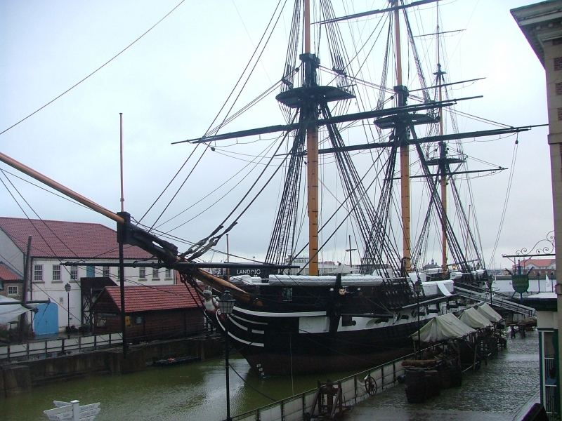 HMS Trincomalee in the historic dockyard, Hartlepool.